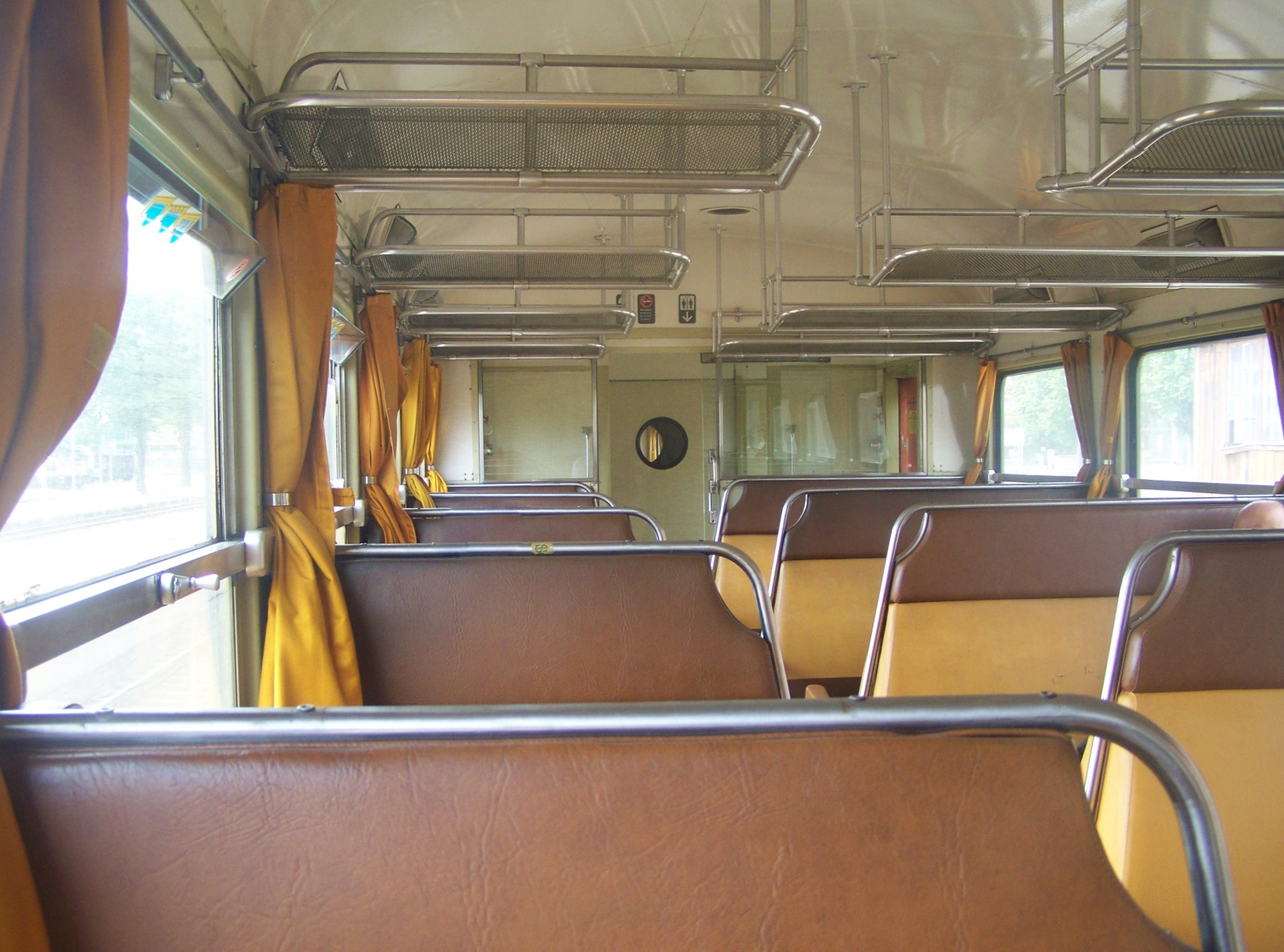 Inside sight of a French SNCF X 4500 (engine n° 4560) second class carriage, here between Paray-le-Monial and Chalon-sur-Saône in Saône-et-Loire (Bourgogne).